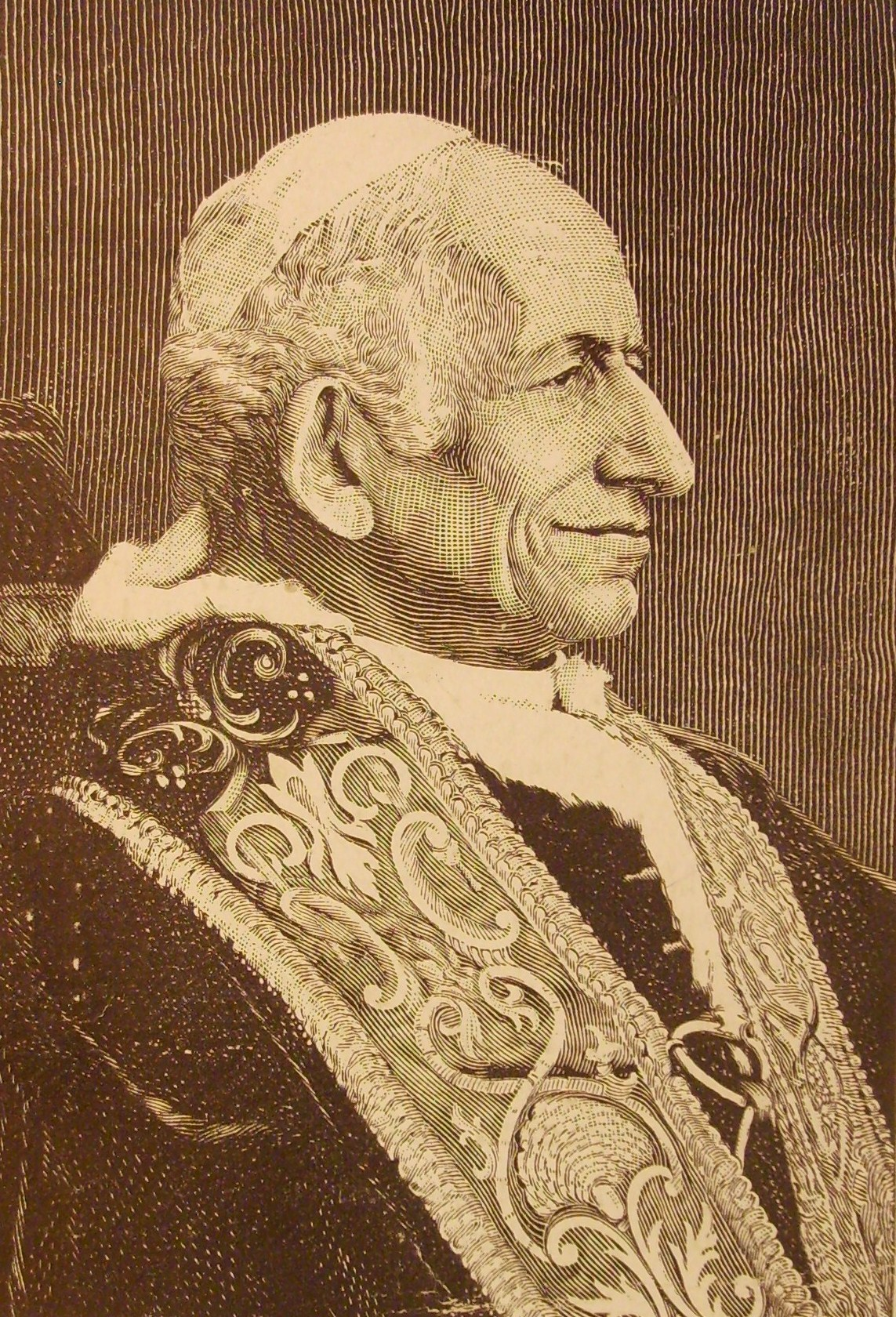 Pope Leo XIII